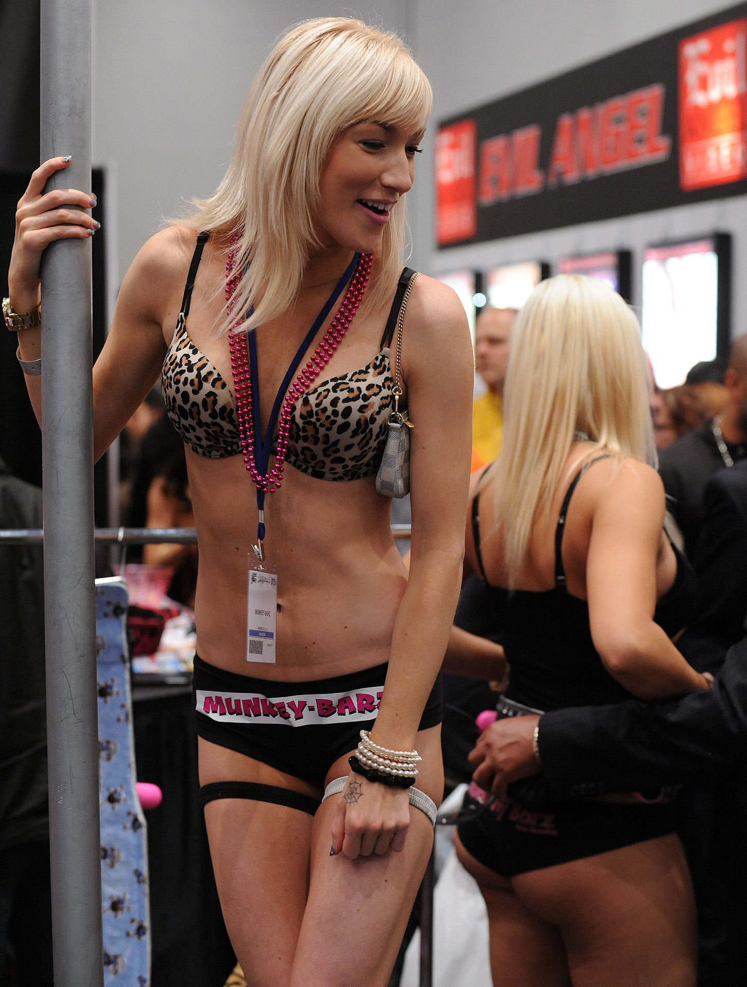 A promotional model at the AVN Adult Entertainment Expo 2012 in Las Vegas. Although she was hired for the expo, the subject is not an adult entertainment model or actress.